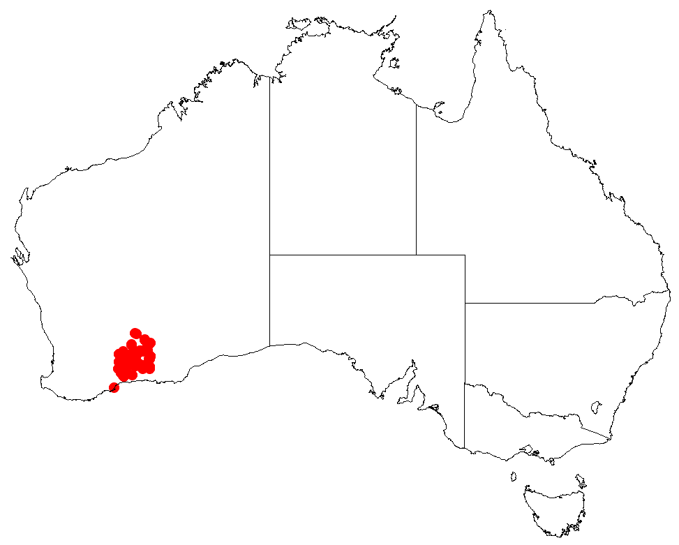 Persoonia helix Occurrence data downloaded from Australasian Virtual Herbarium on 30 October 2018 from